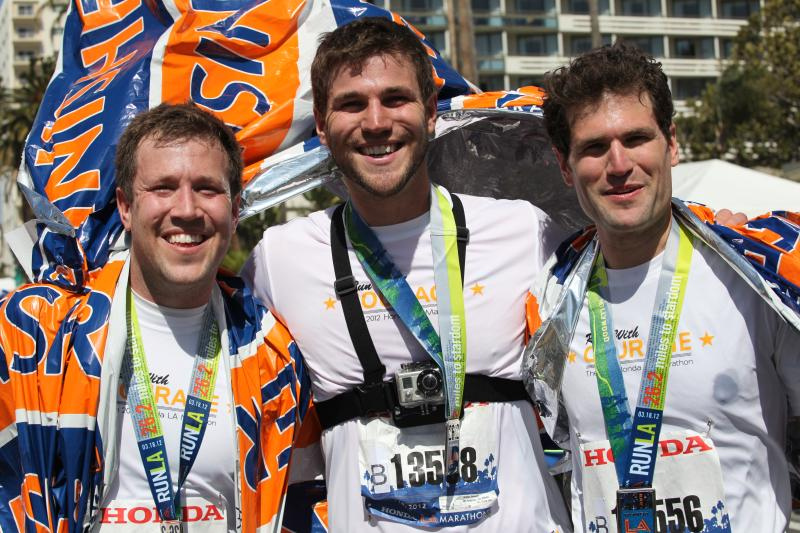 Austin Stowell with borthers Dan and Ryan at 2012 LA Marathon Photos - Los Angeles